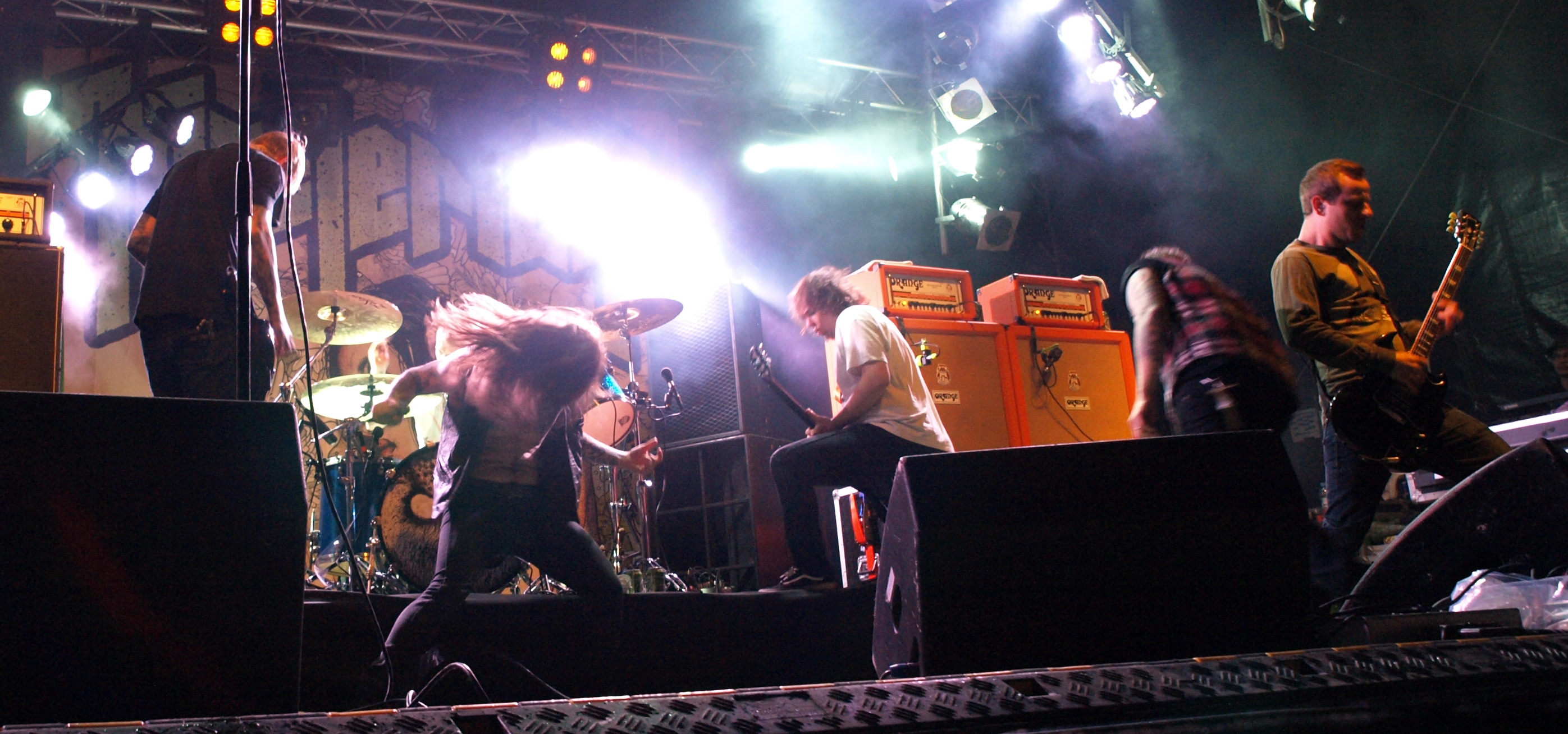 Norwegian band Kvelertak live at Provinssirock 2013